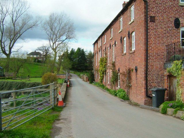 Watermill. Old water mill converted to residence on outskirts of Audlem.